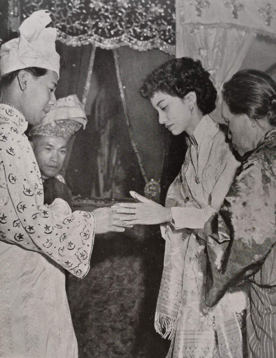 After the religious ceremony, Tunku Abdul Halim touched his bride’s hands gently to indicate their new status as husband and wife during their wedding in 1956.